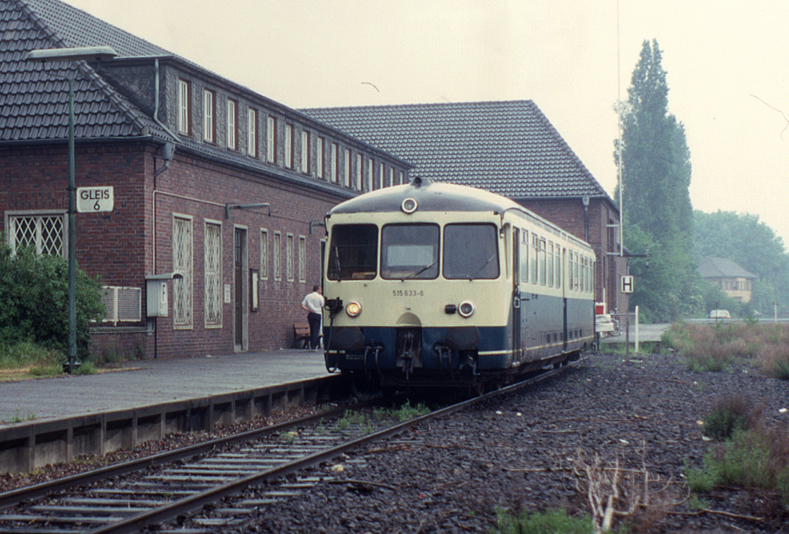 Battery electric multiple unit no. 515.633 at Jülich on 10 May 1990 forming the 12:54 departure for Düren. The lines in the area were handed over from DB to regional operator Rurtalbahn GmbH in the early 2000s.